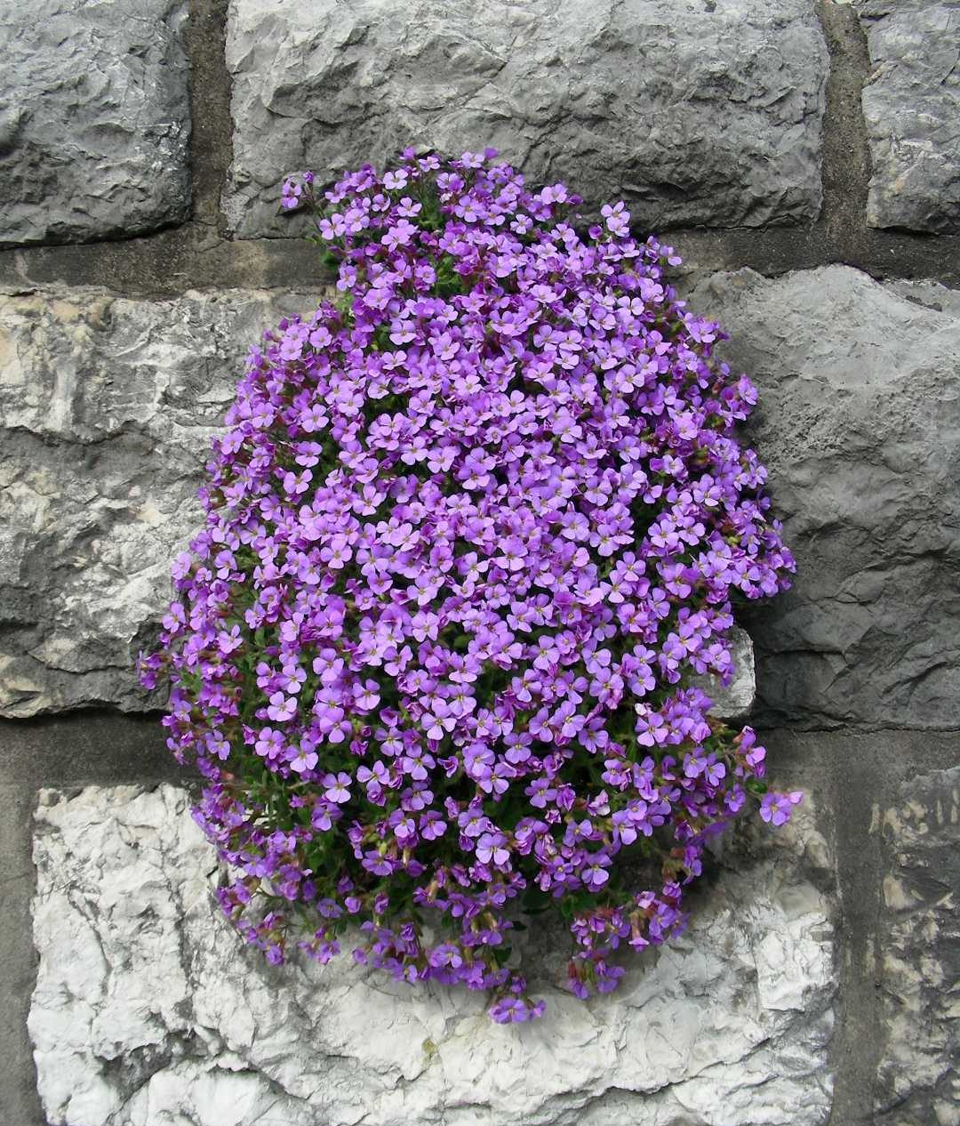 Aubriettia